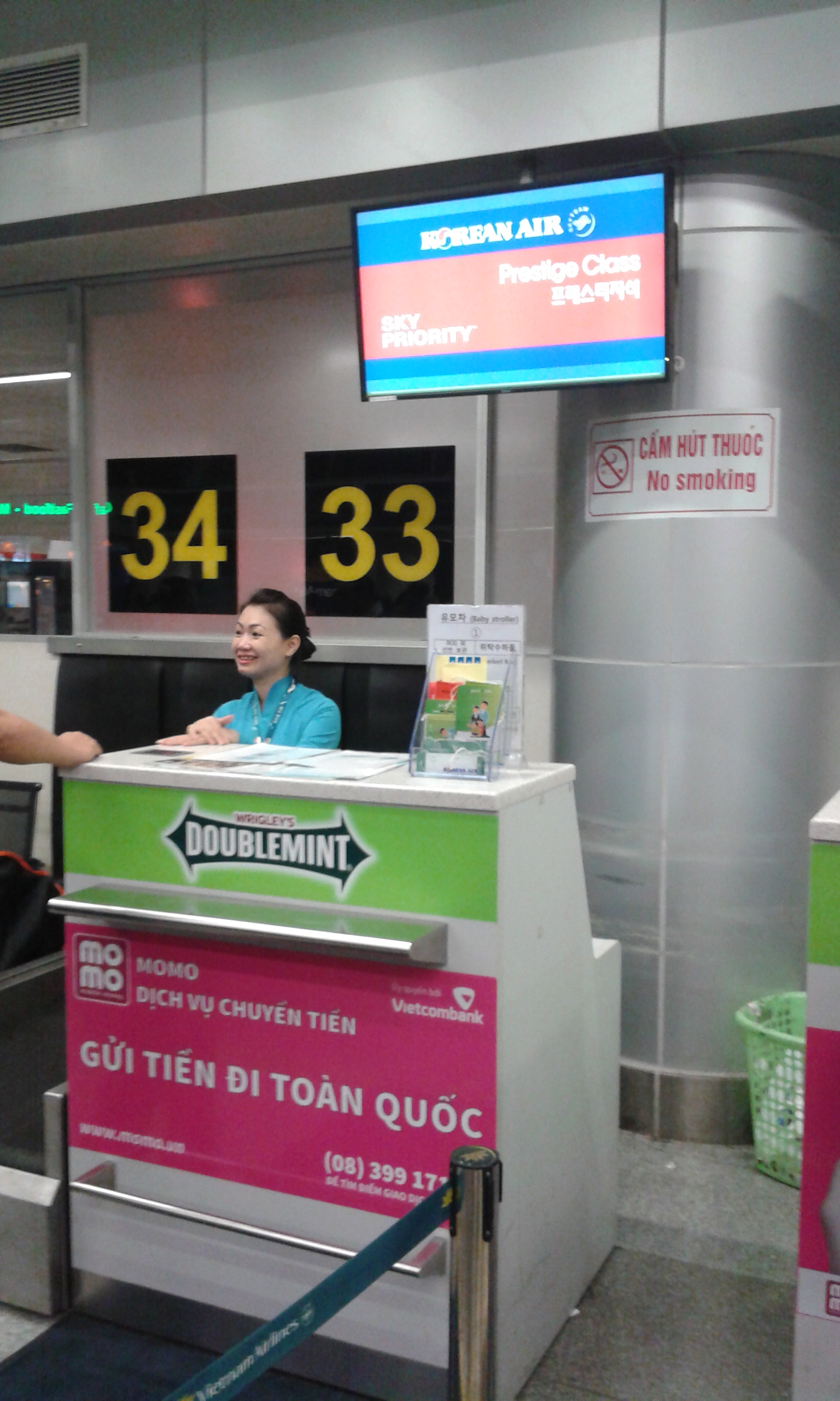 Da Nang Airport